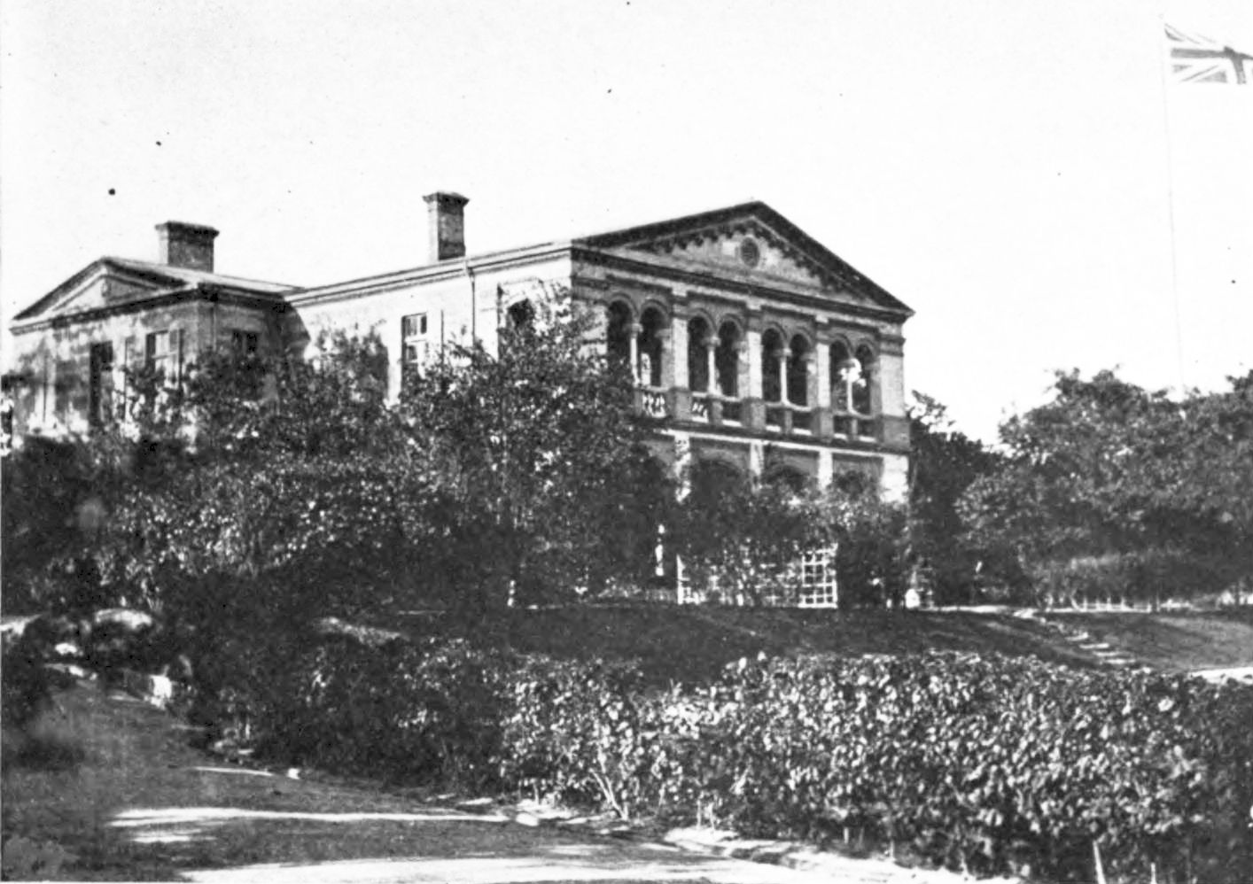 British legation to Korea, c.1900; p.197 The passing of Korea (book)